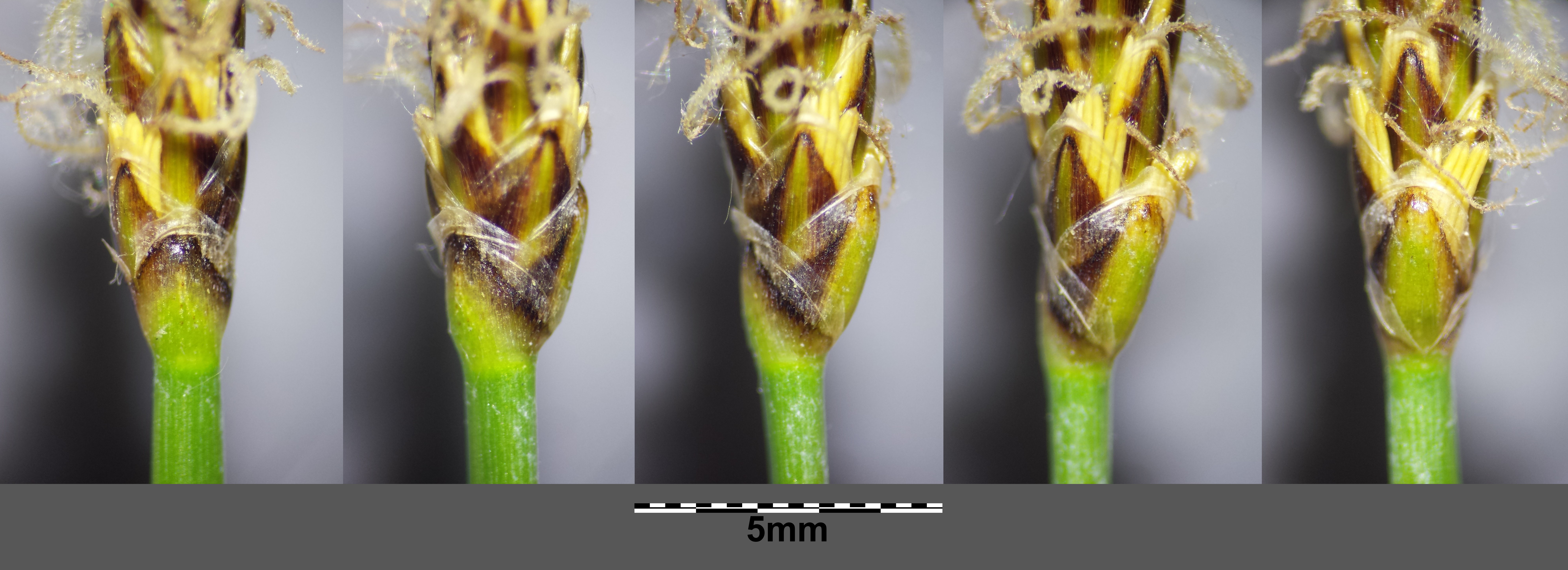 Spiklet, the lowest glumes are sterile and encircle the base of the spikelet Taxonym: Eleocharis uniglumis ss Fischer et al. EfÖLS 2008 ISBN 978-3-85474-187-9 Location: "Irissee" in Donaupark, Vienna-Donaustadt - ca. 160 m a.s.l. Habitat: shore of a pond